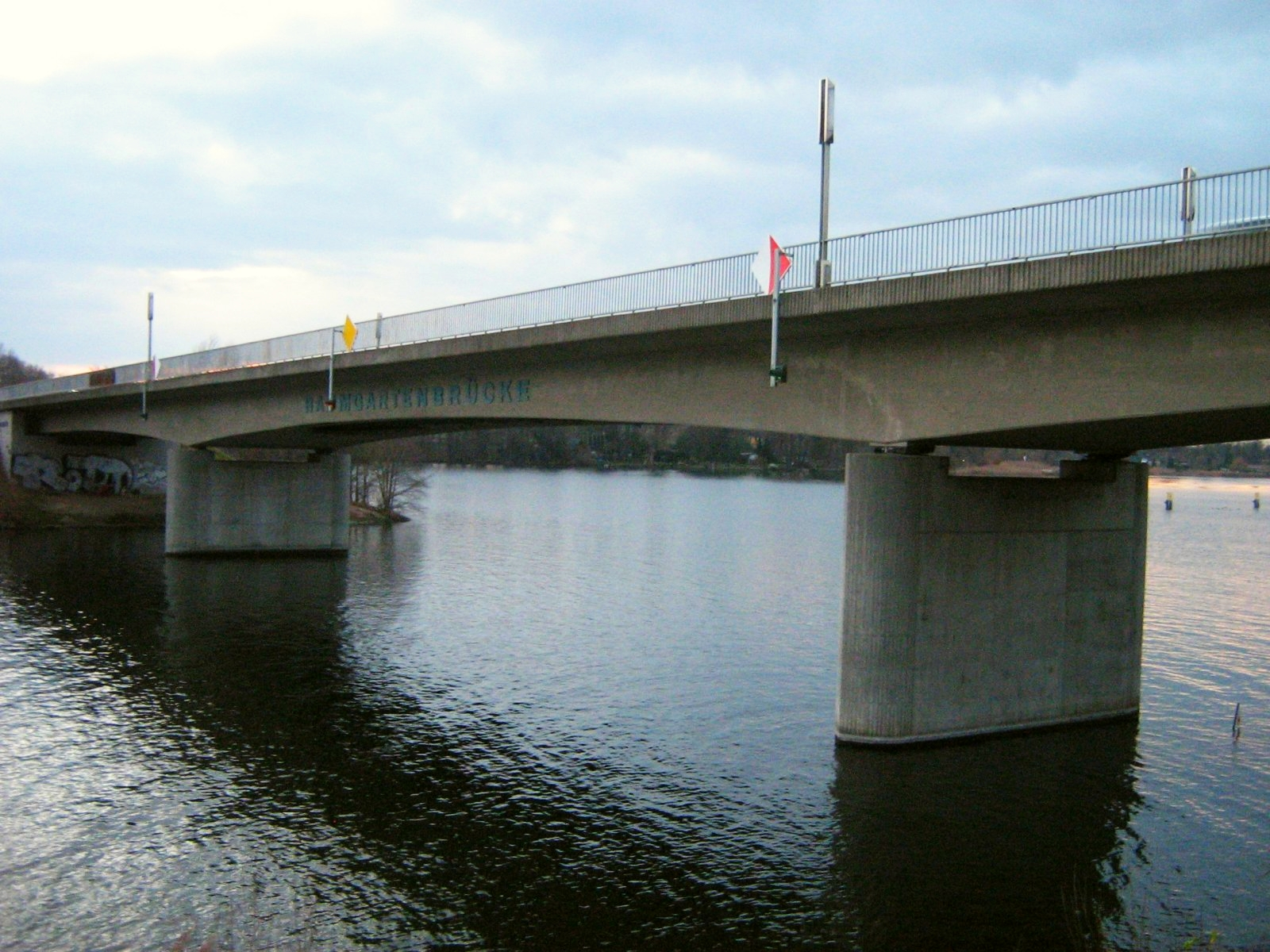 The Lake "Schwielowsee" (River Havel) in Brandenburg (Germany).